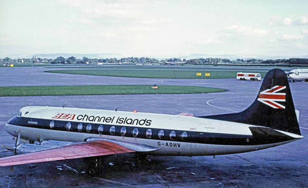 British European Airways Channel Islands Vickers Viscount 802 G-AOHV at Manchester Airport in 1971